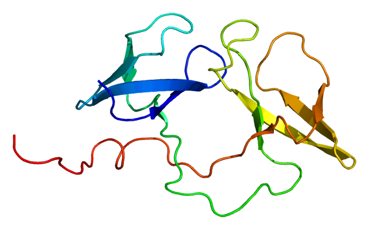 Structure of the FMR1 protein. Based on PyMOL rendering of PDB 2bkd.